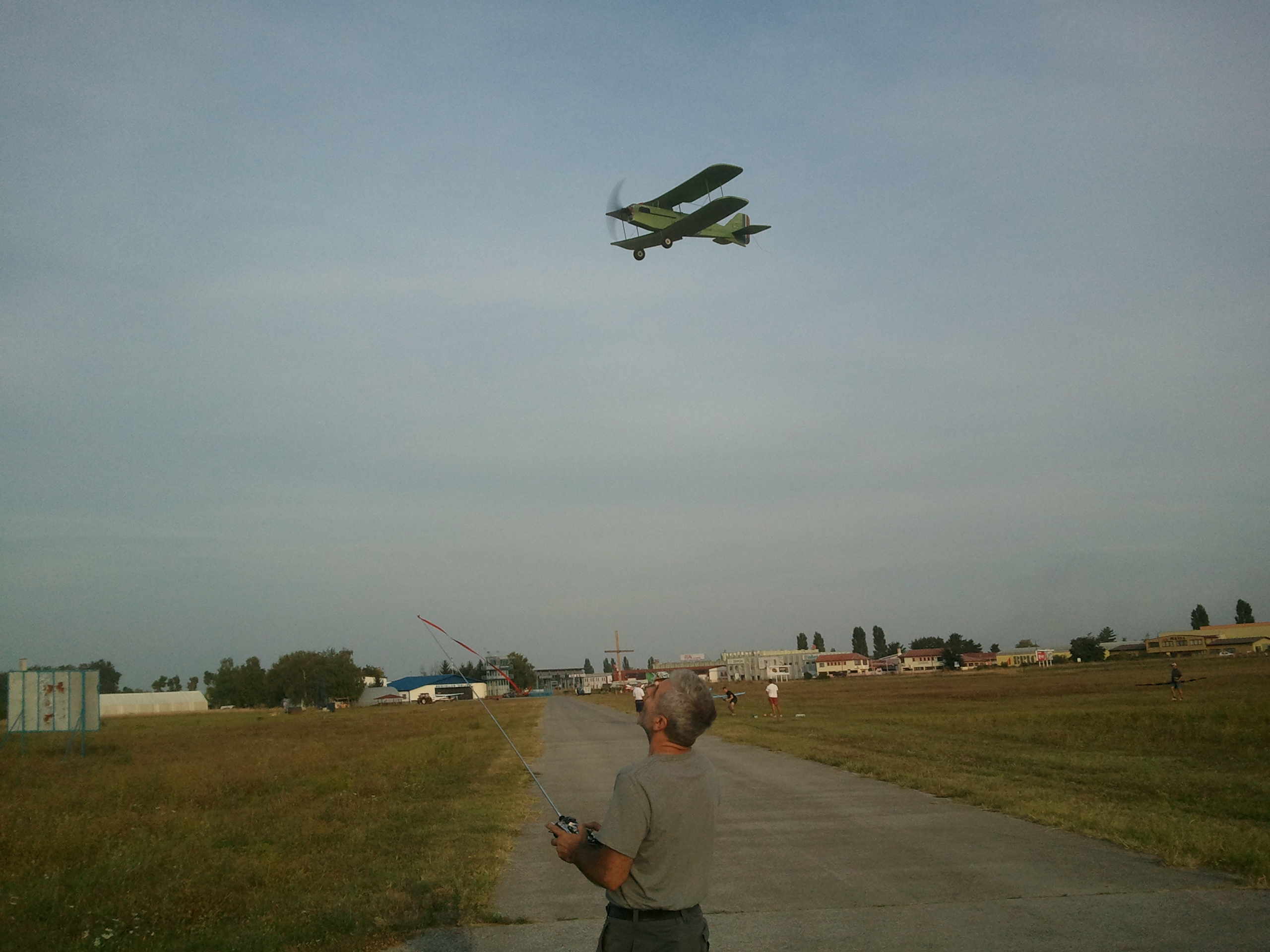 Radio controlled model aircraft in flight at the sporting airport Čepin, Croatia.